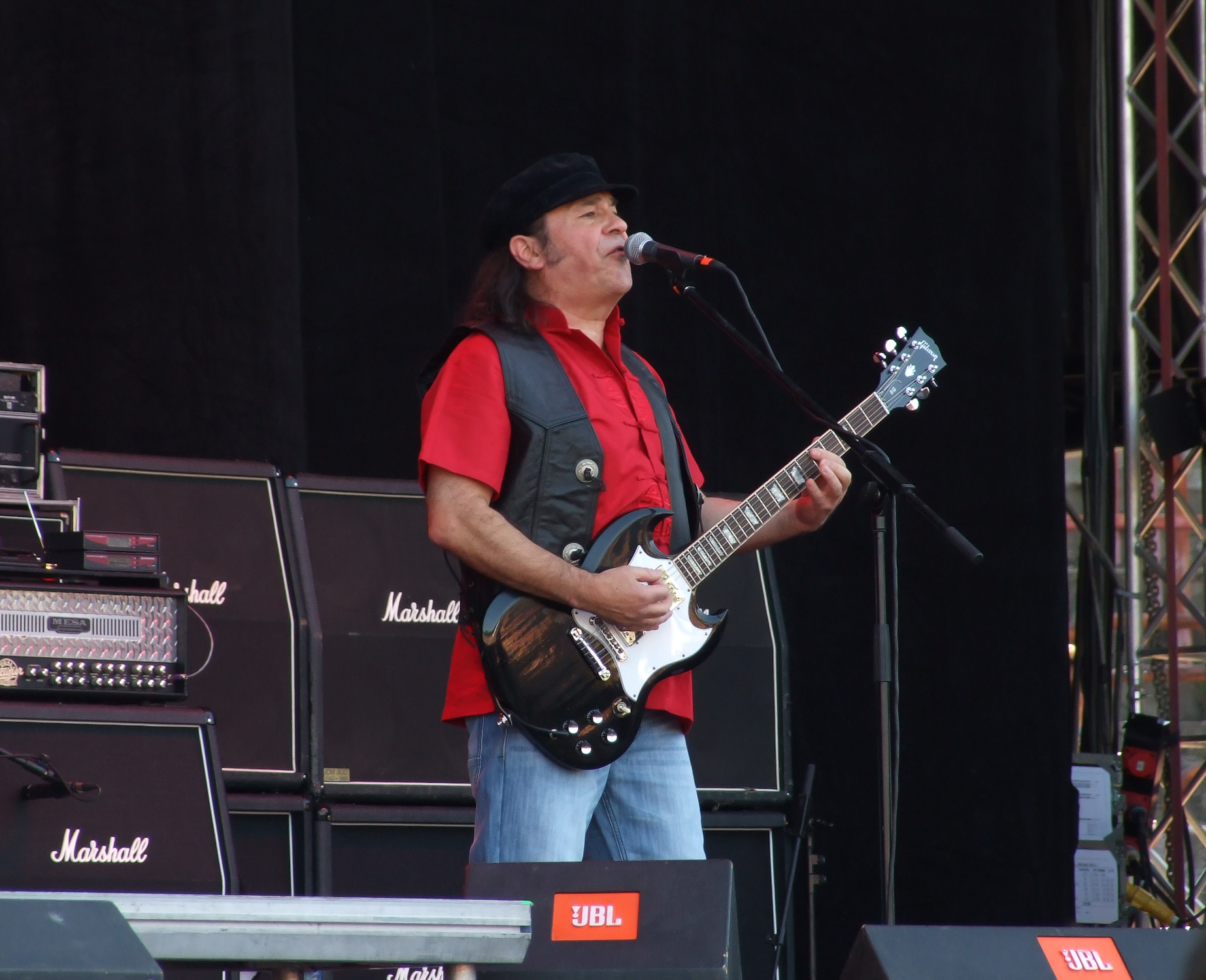 Mal McNulty with Slade at Sofia Rocks Fest, Bulgaria.